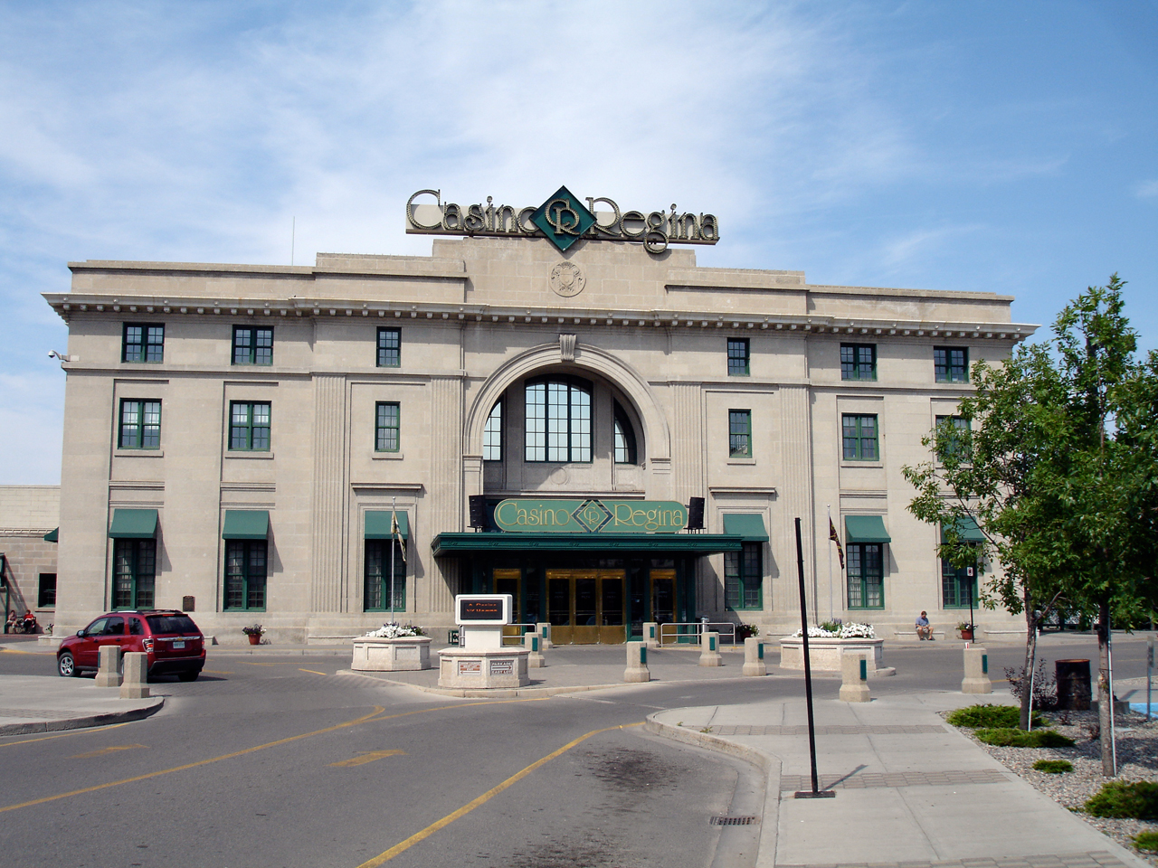 Front entrance of Casino Regina, a former train station converted in a casino, in downtown Regina, Saskatchewan, Canada.